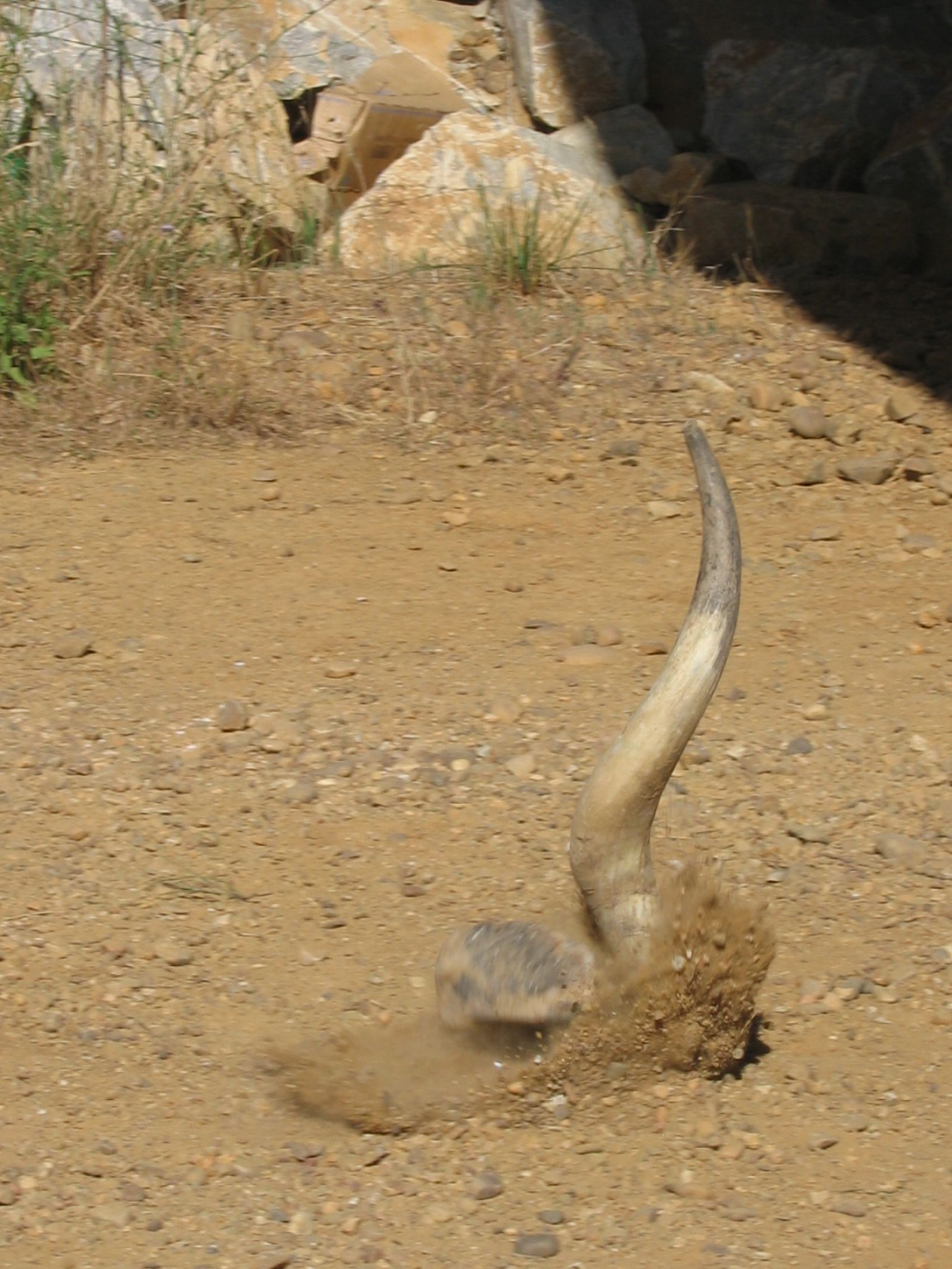 Rural sport of the province of Palencia (Castile and León) called Chana a morrillo.